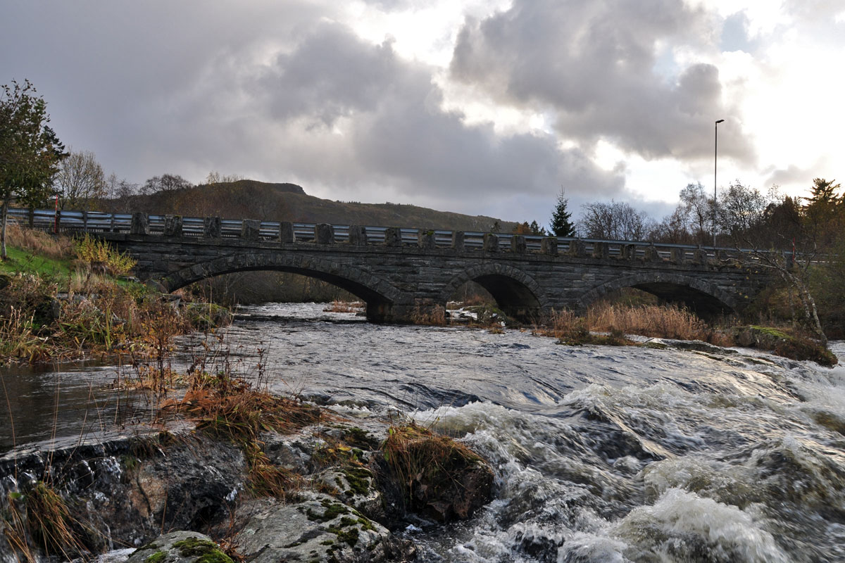 Vatne bridge seen from north.